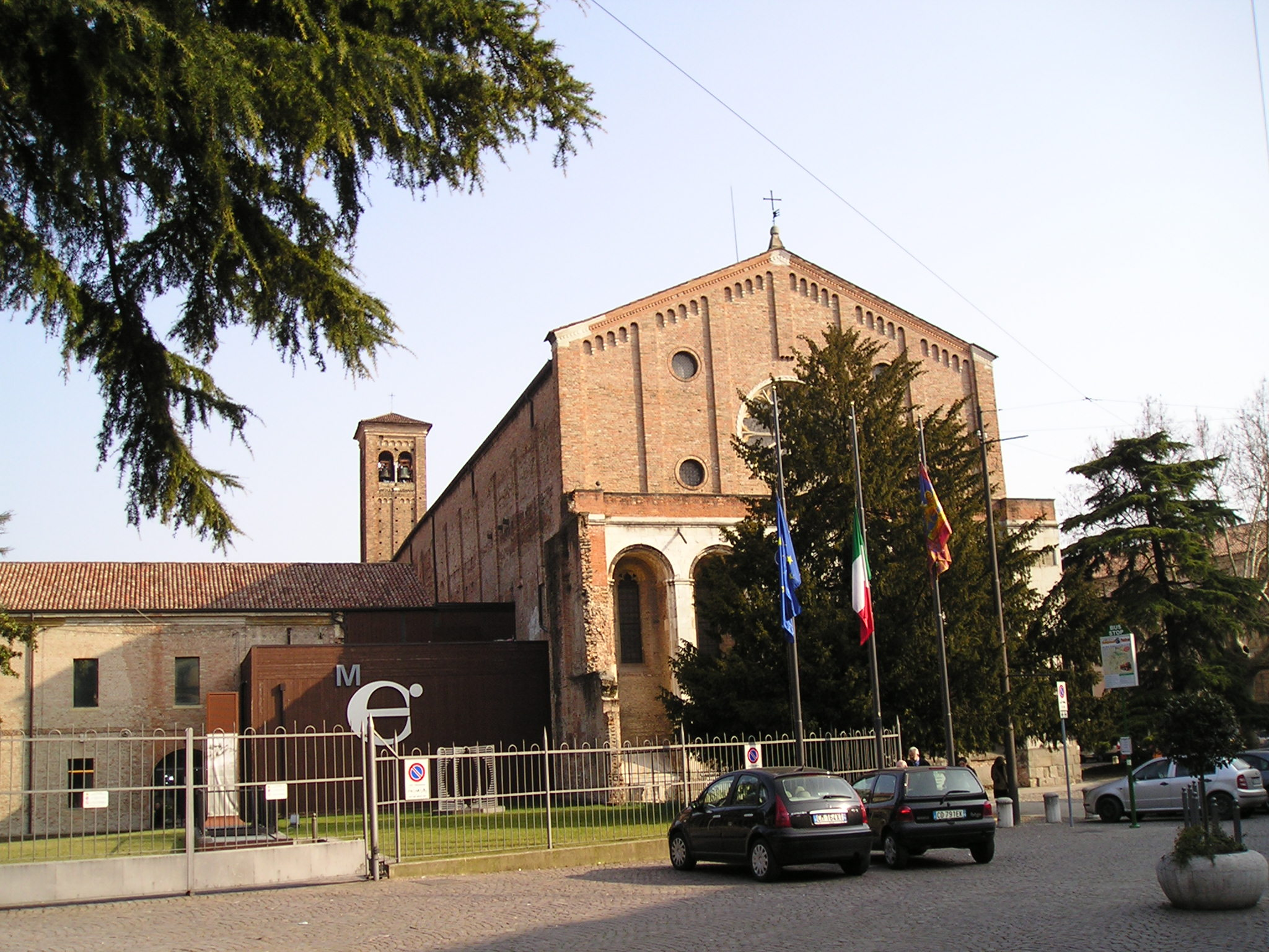 The Eremitani church and entrance to the Civic Museums of Padua, Italy